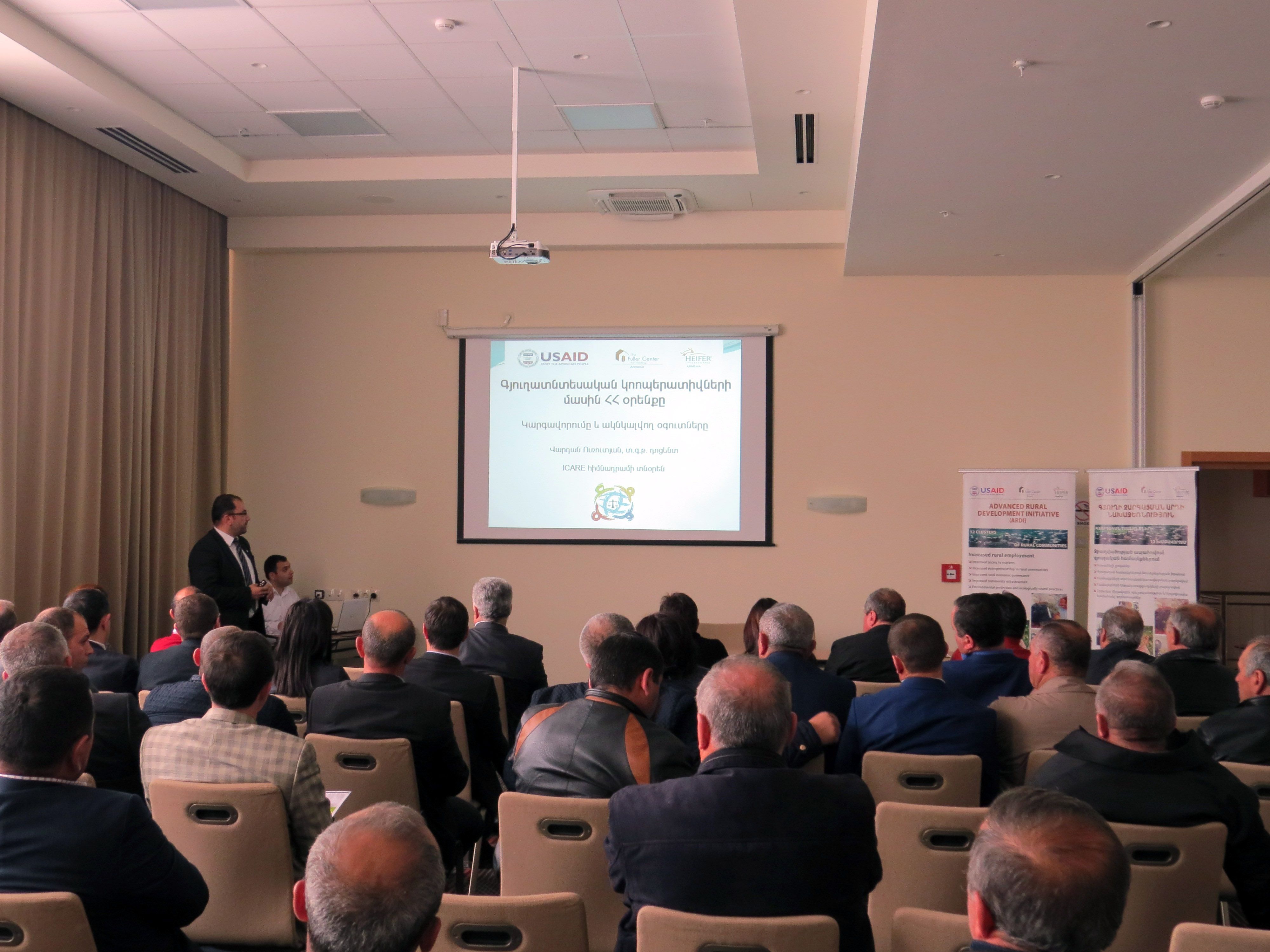 Presentation on RA Law on Agricultural cooperatives.